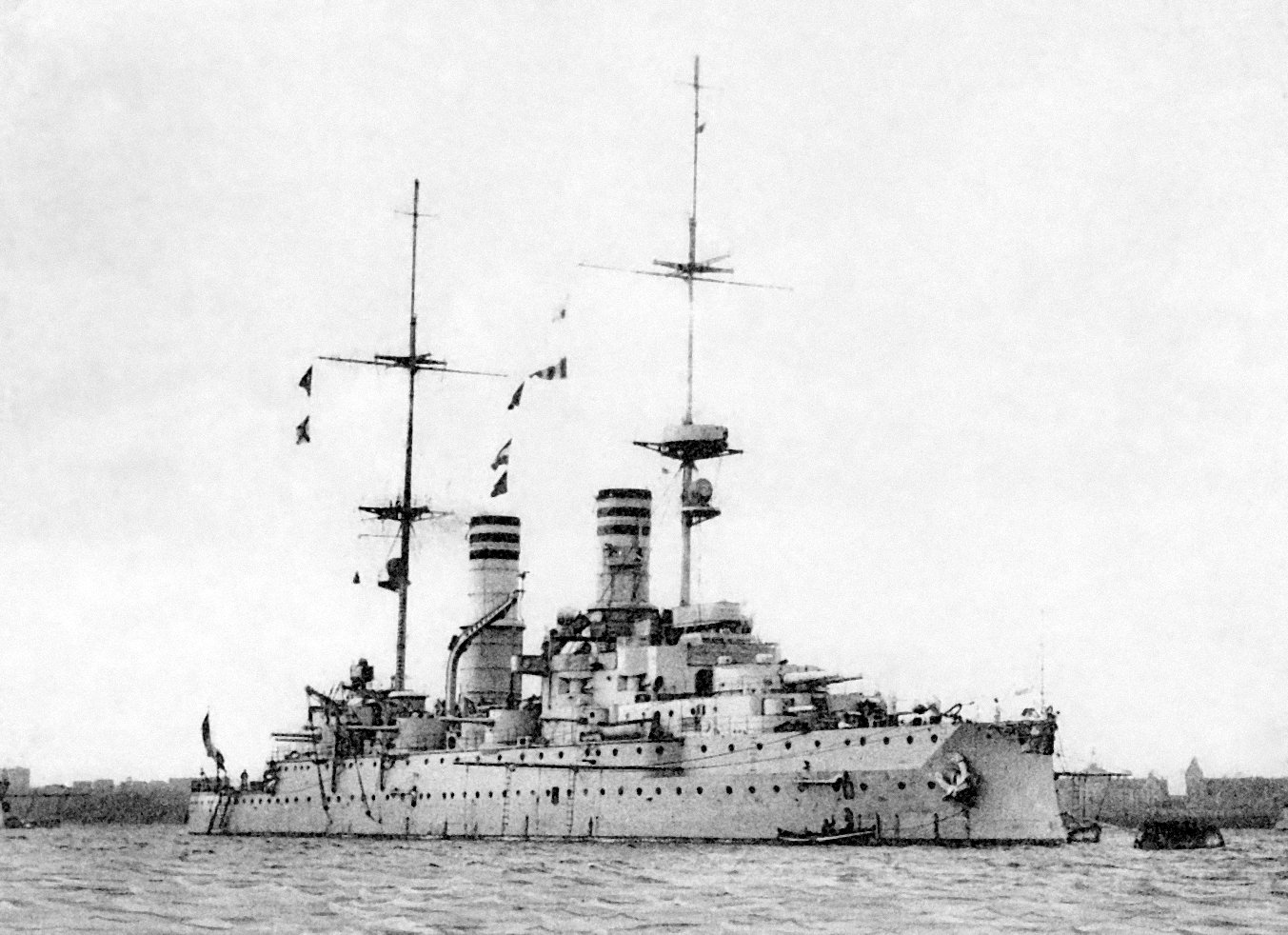 The German Imperial Navy Kaiser-Friedrich-III-class battleship Kaiser Barbarossa before 1914.